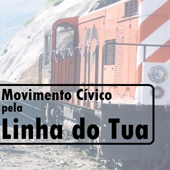 MCLT's logo